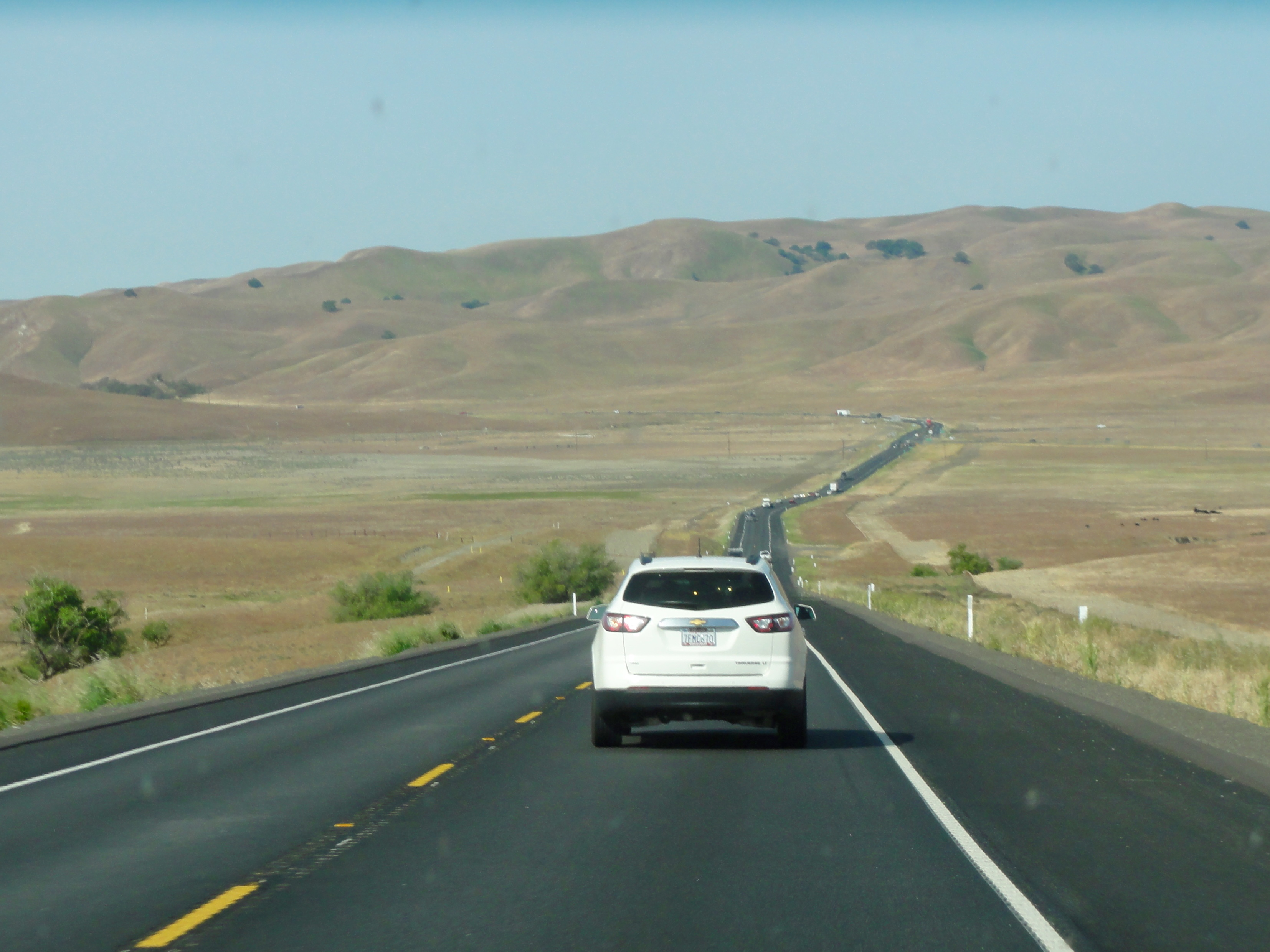 Descending from the peak of Polonio Pass westbound on route 46.